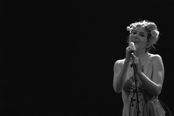 Lavender Diamond, opening for the Decemberists. Botanique, Brussels.